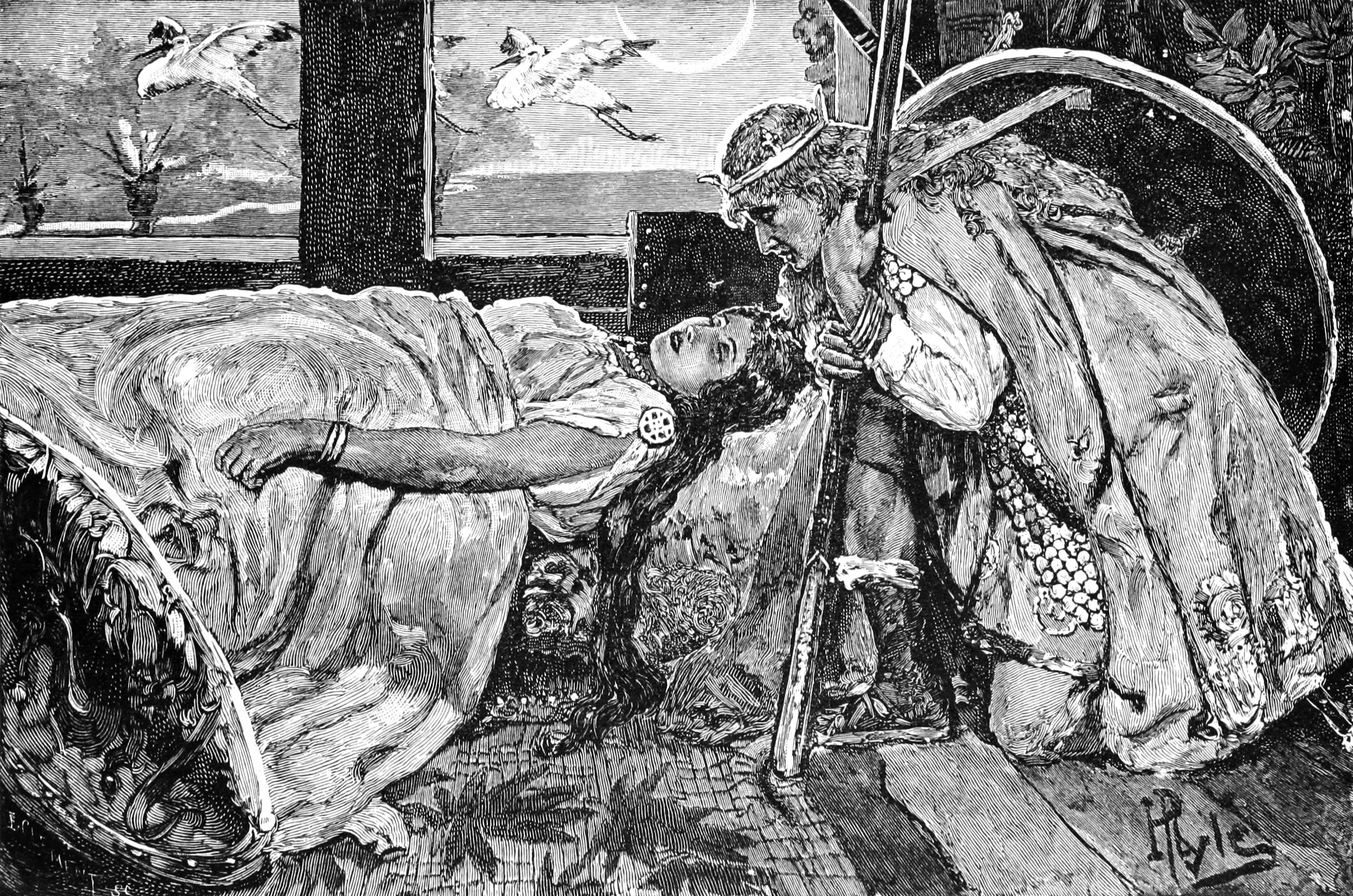 Siegfried prepares to kiss the sleeping Brunhild.